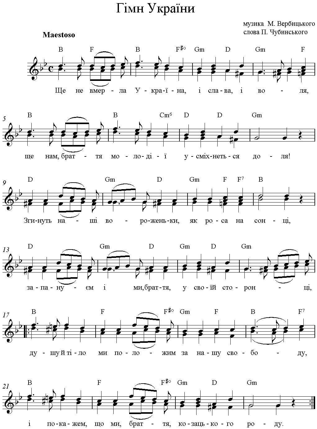 Anthem of Ukraine. "Sche ne vmerla Ukrayiny." edited by uploader